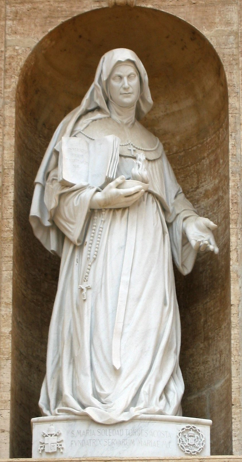 Statue of Saint Maria Soledad Torres Acosta at Vatican Basilica, Rome.